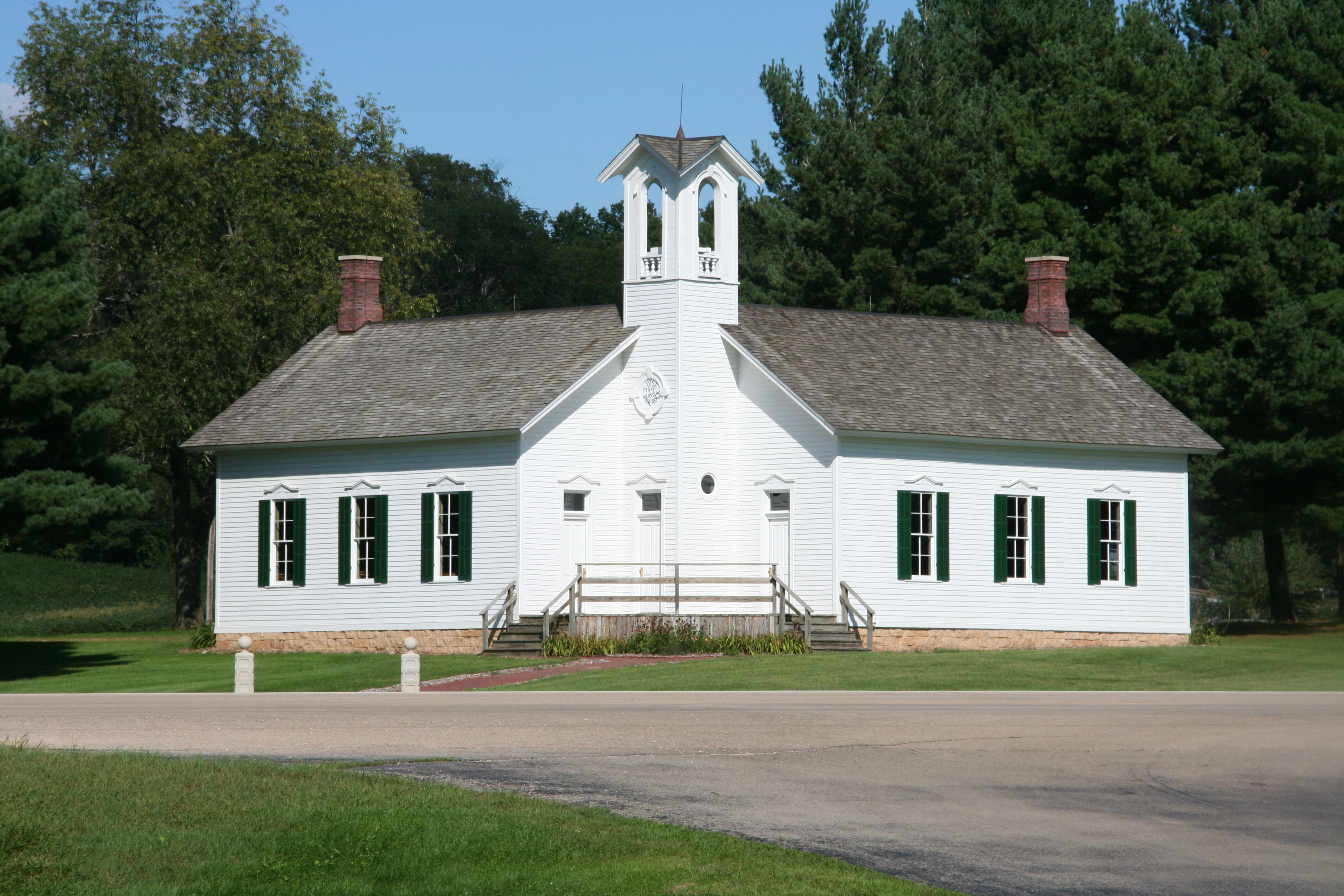 Photo from across the road of the Chana School, located in Oregon, Illinois, USA.